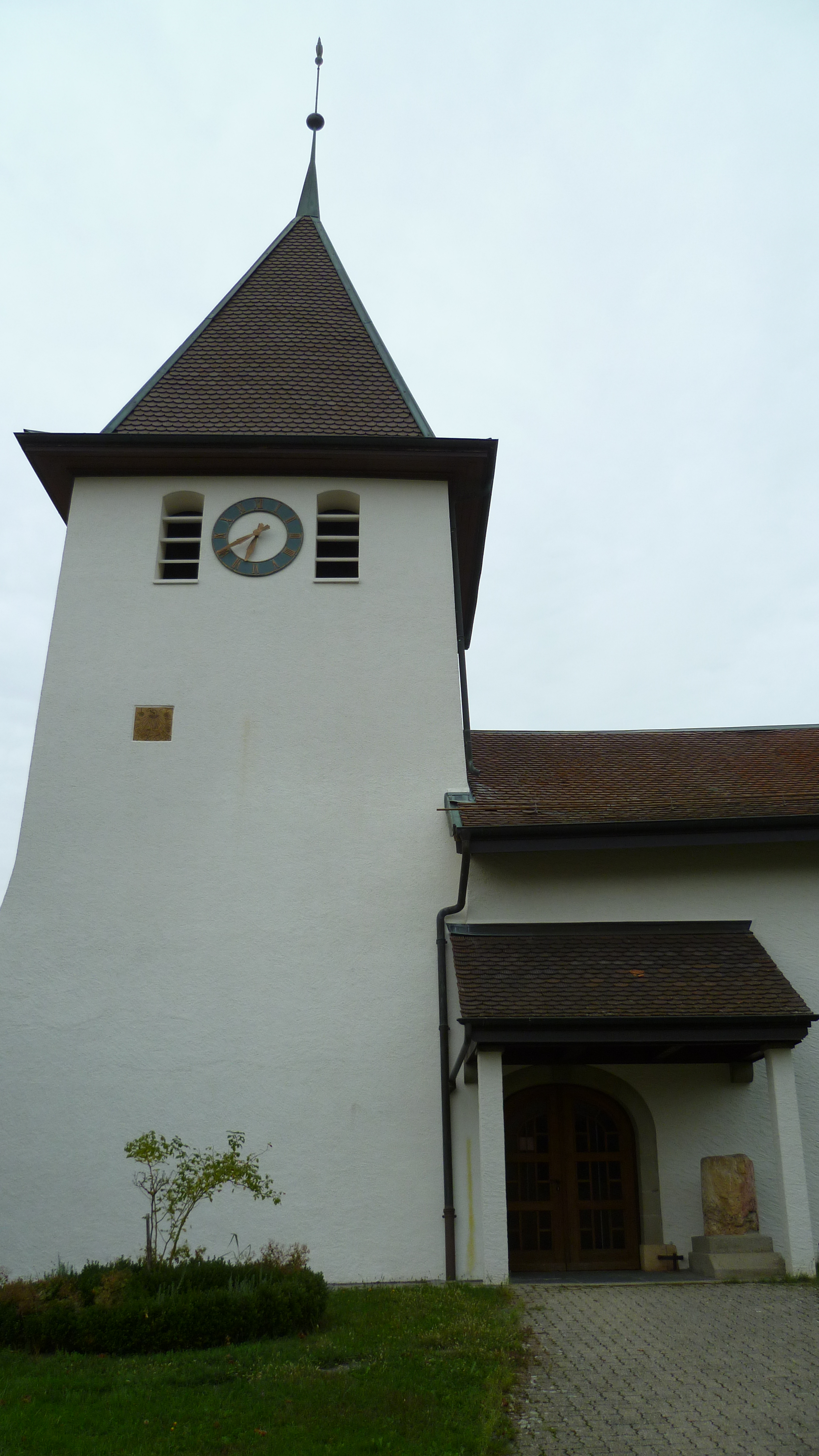 Reformed Church of Saint-Maurice in Penthaz, Vaud